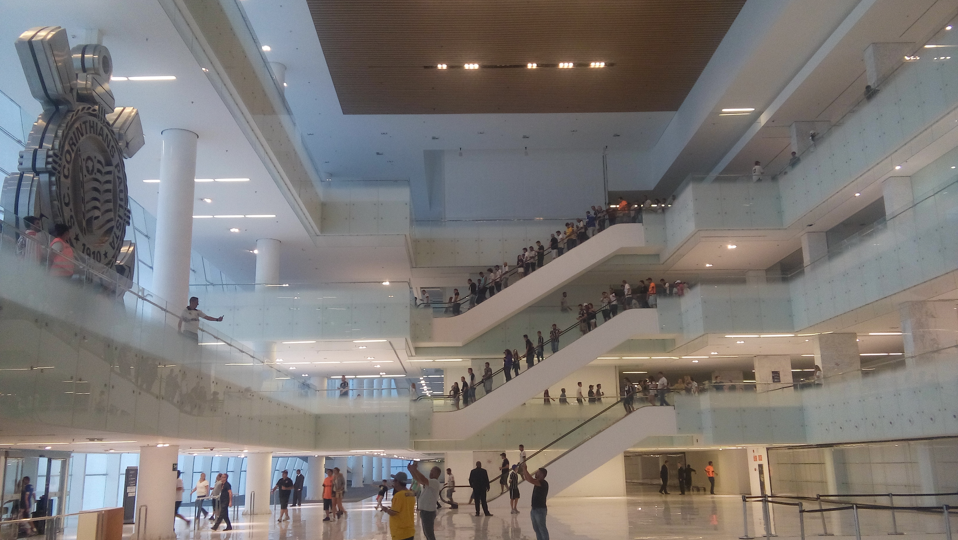 Hall of the west building of the Arena Corinthians